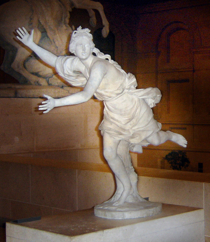 Daphne chased by Apollo. Marble, ca. 1713-1714.